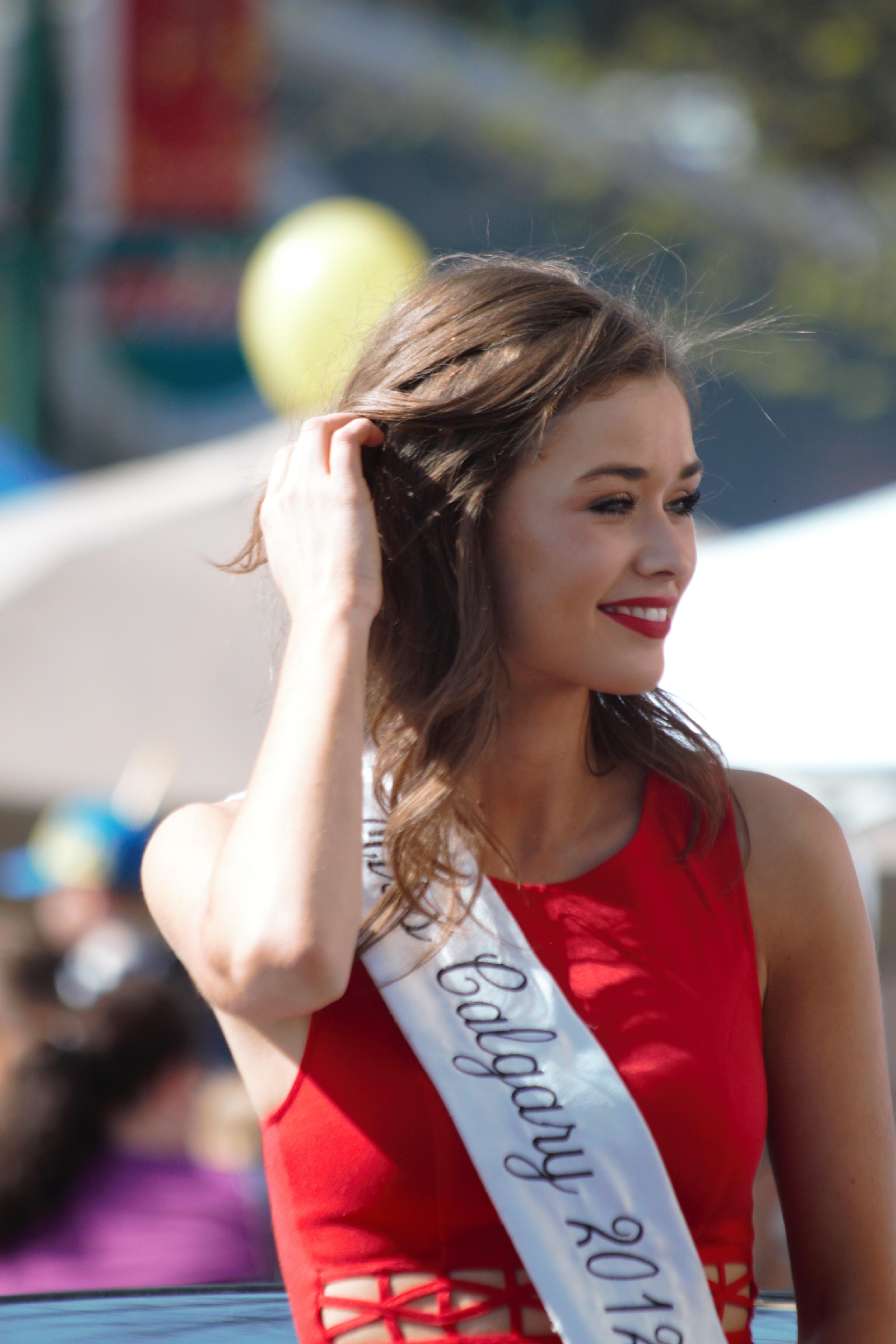 Miss Calgary 2012 Ela Mino is seen here in the parade kickoff of 2014 Lilac Festival in Calgary, Alberta.